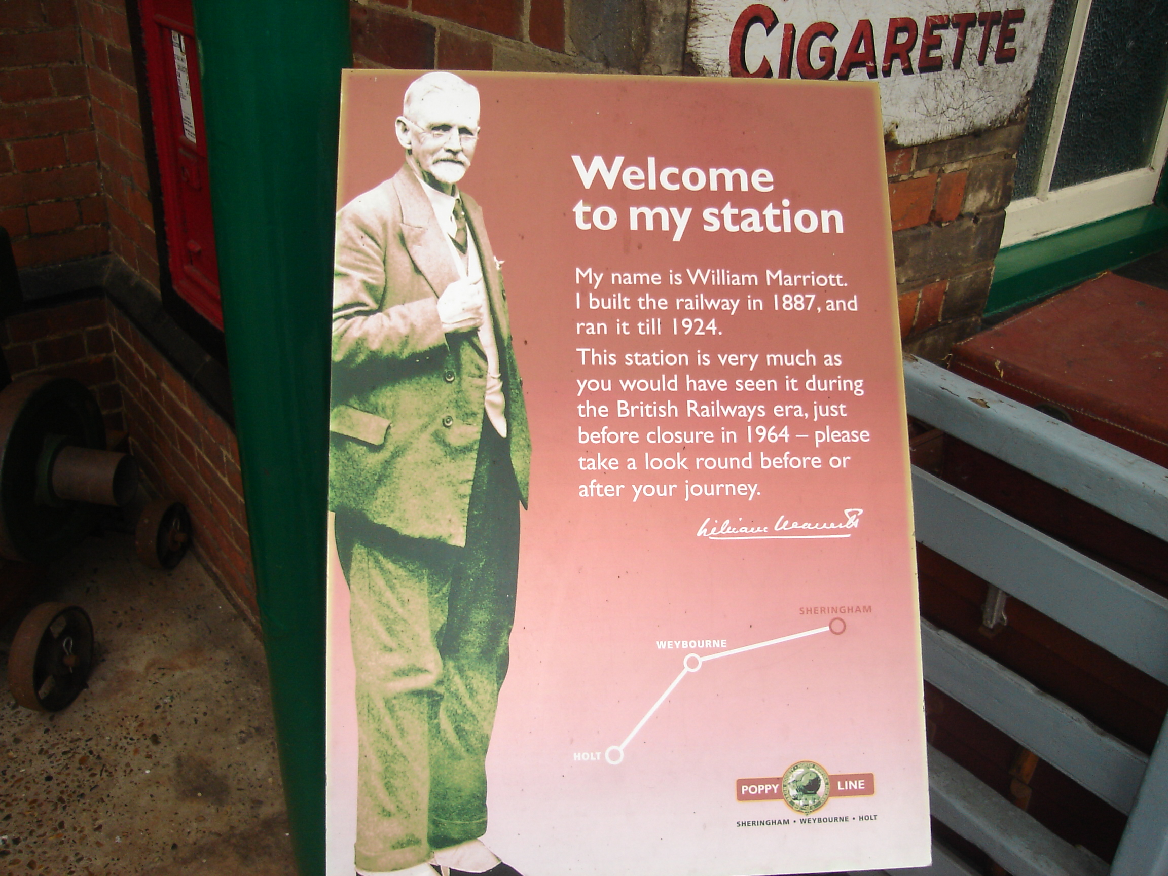 Picture of a poster depicting William Marriott